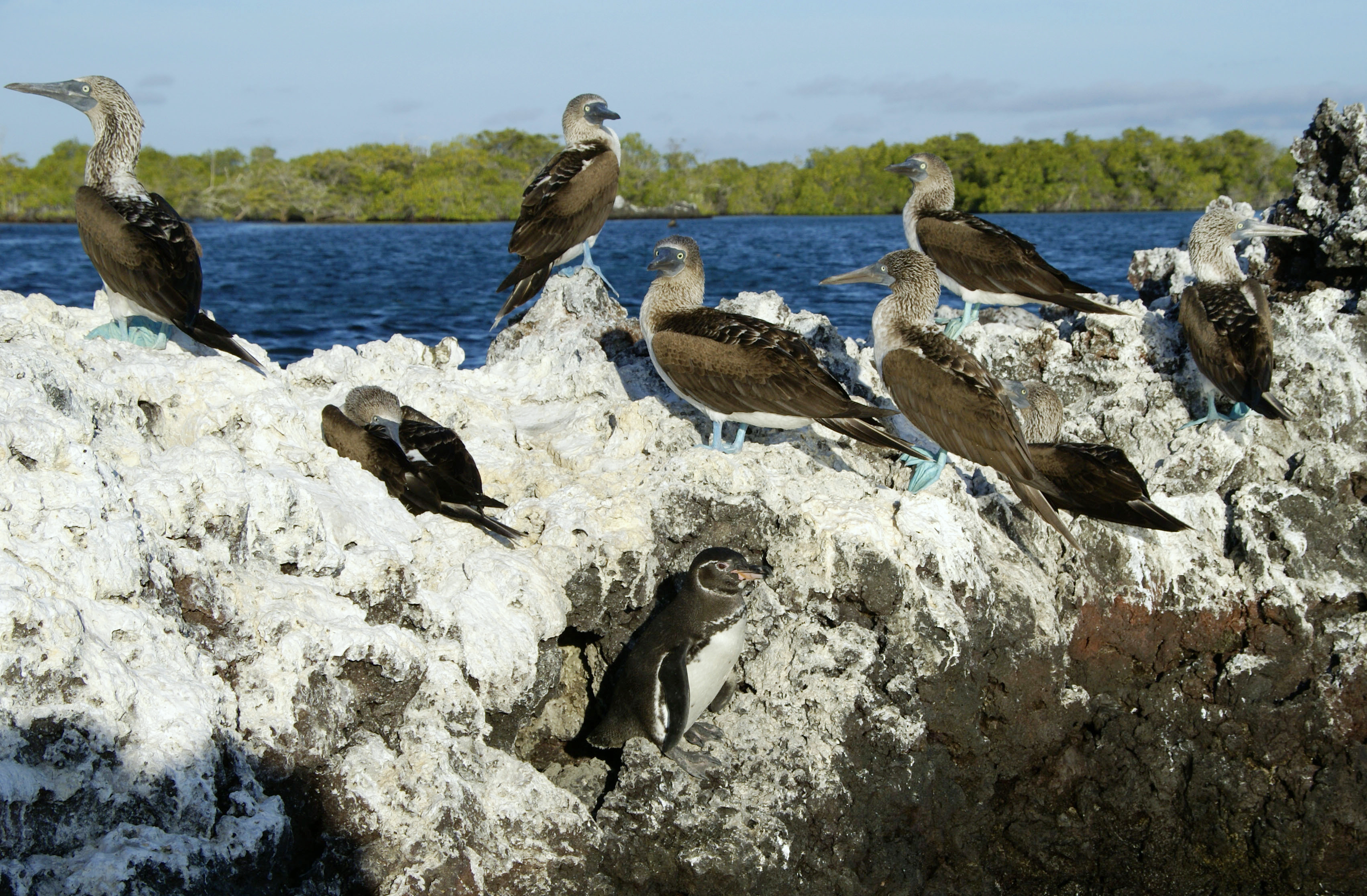 Galapagos Penguins and Blue-footed Boobies at Elizabeth Bay, Isabela Island, Galapagos.